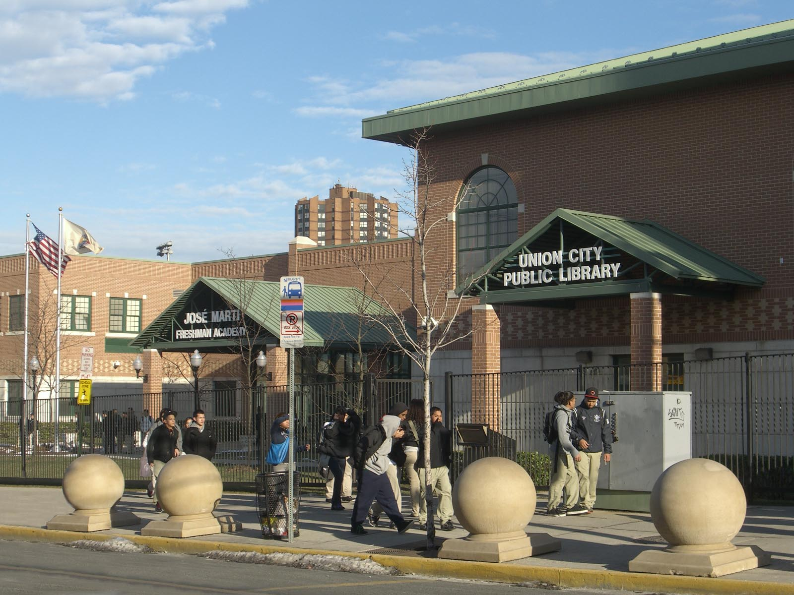 José Marti Freshman Academy and the Union City Public Library in Union City, New Jersey. Photo by Luigi Novi. You are free to use this photo so long as you properly credit me wherever it is used. (See licensing information below.)